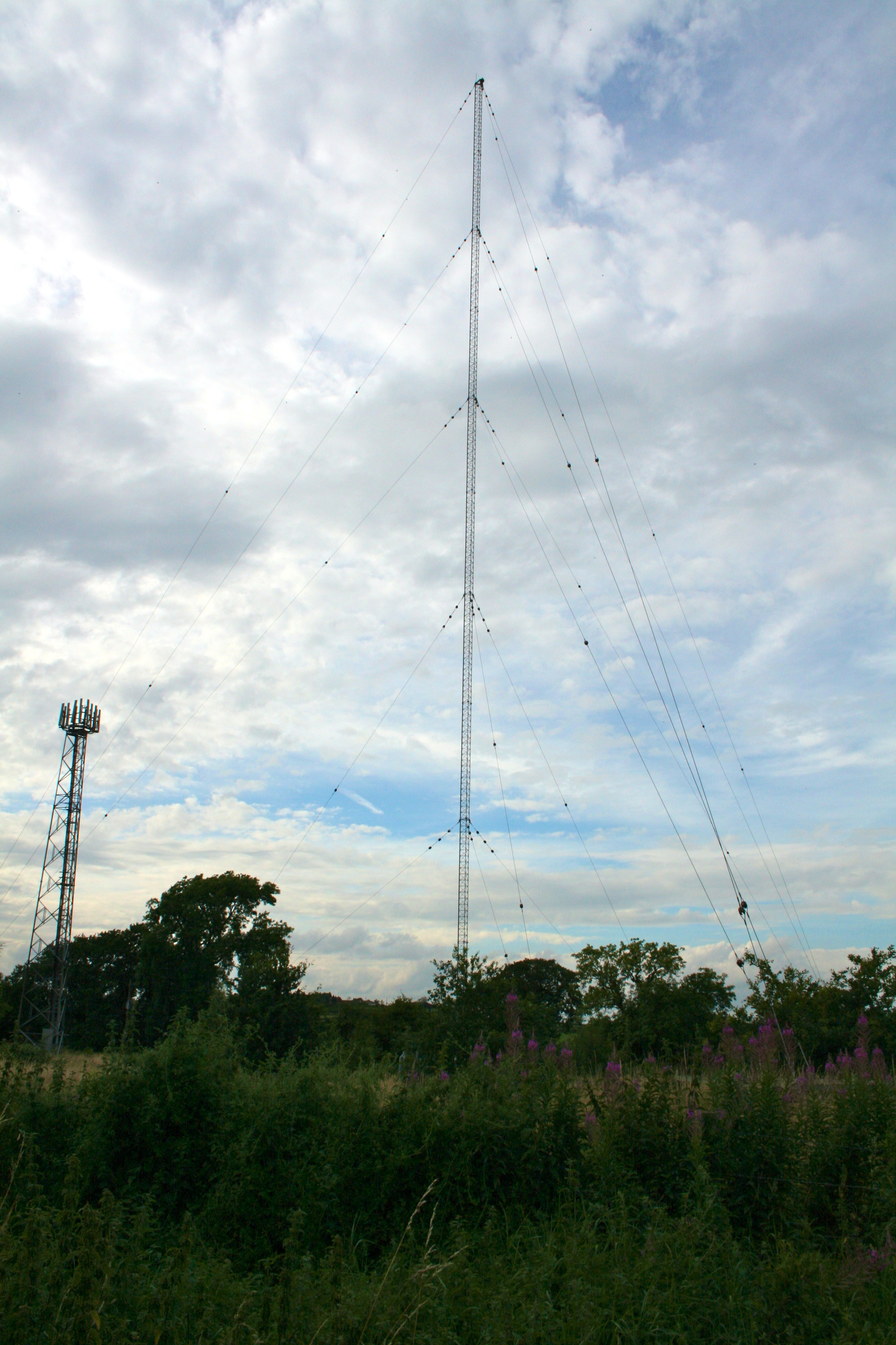 A Mast??